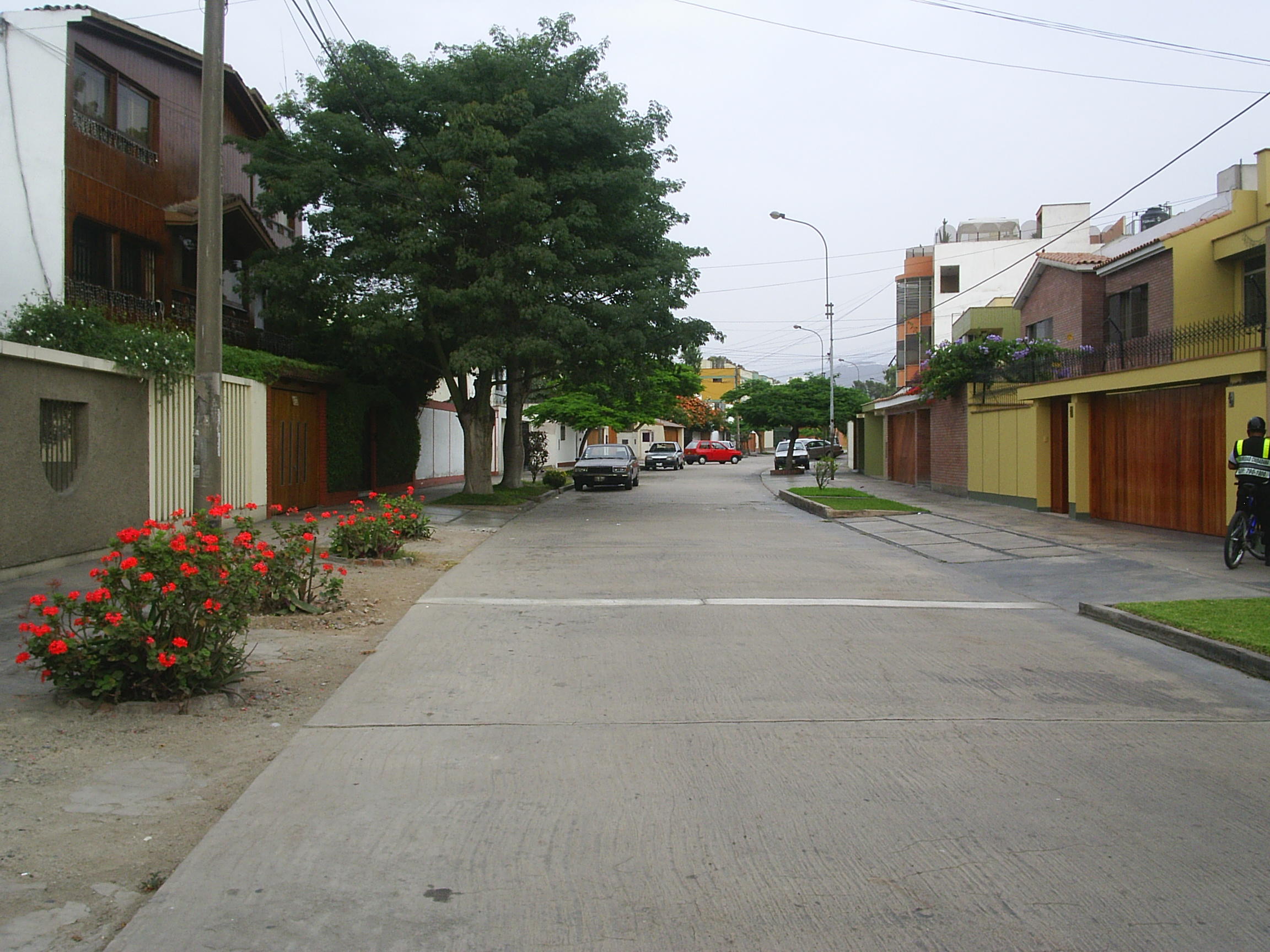 Author: Roger Haro